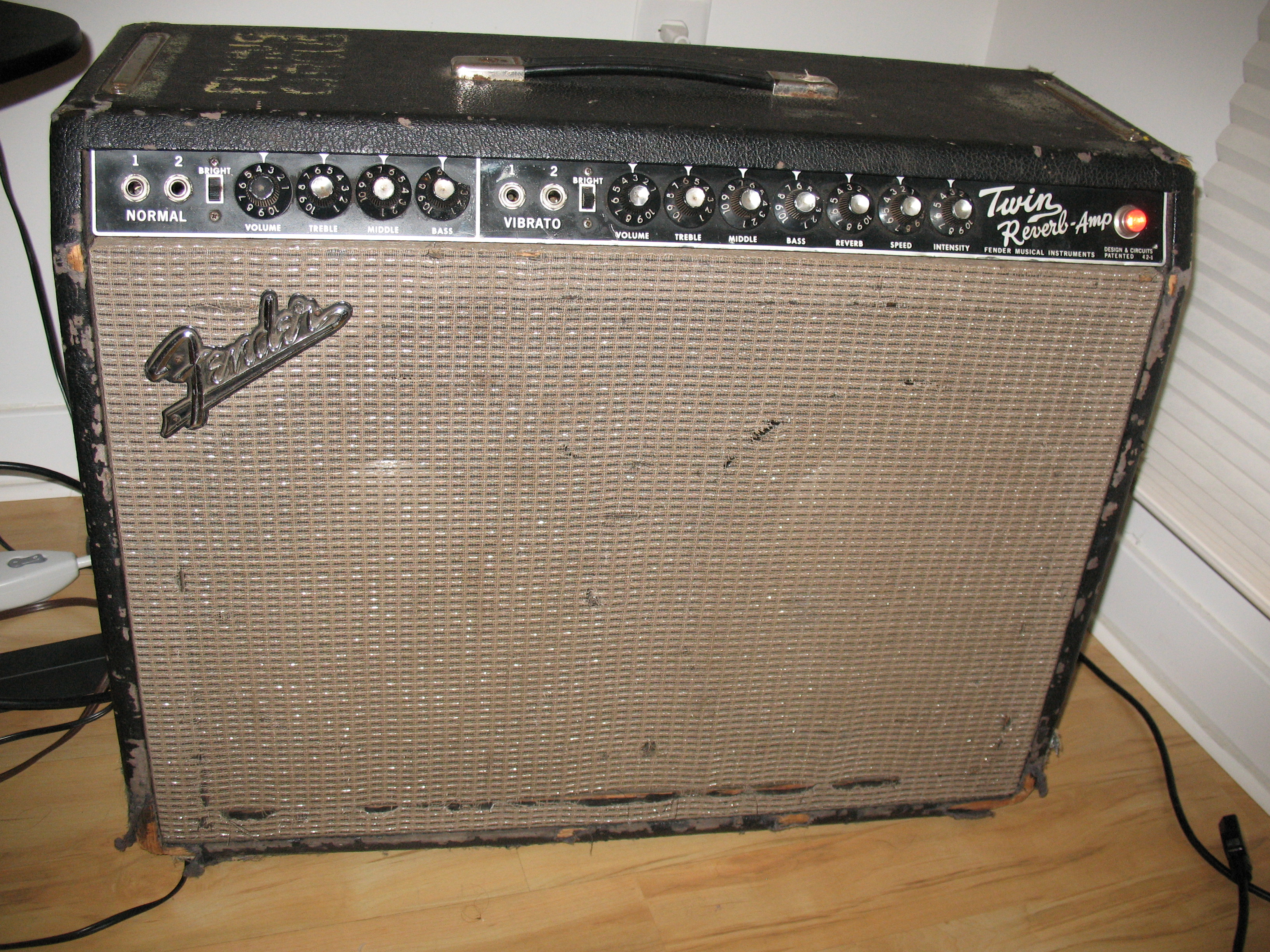 1965 Fender Twin Reverb amplifier with factory JBL Speakers belonging to Jon Hammond since 1981. This amp has pedigree, it was originally owned by guitarist John McPhee (Doobie Brothers / Flying Circus) and has worn stencil on top saying "FLYING CIRCUS" it played the Fillmore in San Francisco and has been maintained by Randall Smith of Prune and Boogie.